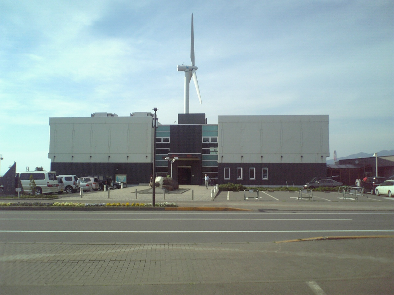 Michinoeki(Roadside Station) Mitara Muroran (Muroran, Hokkaidō)